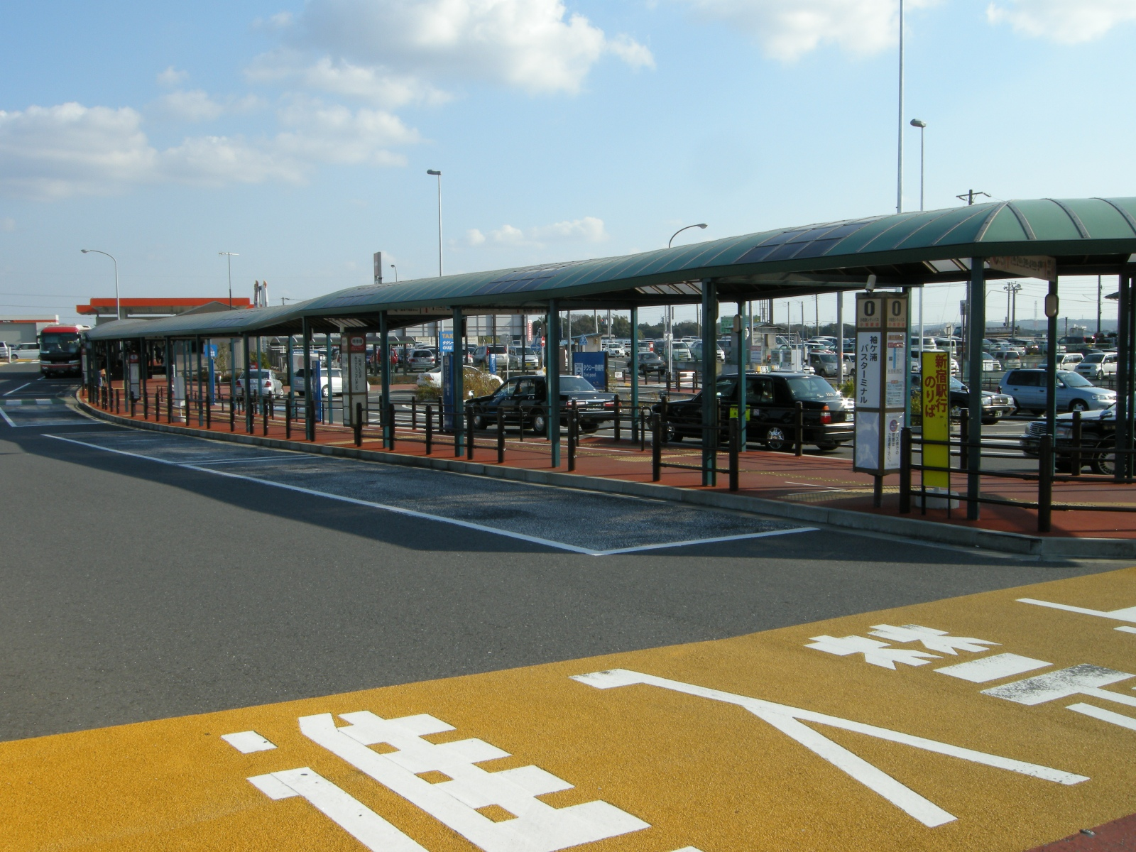 Platforms of Sodegaura Bus Terminal in Chiba, Japan